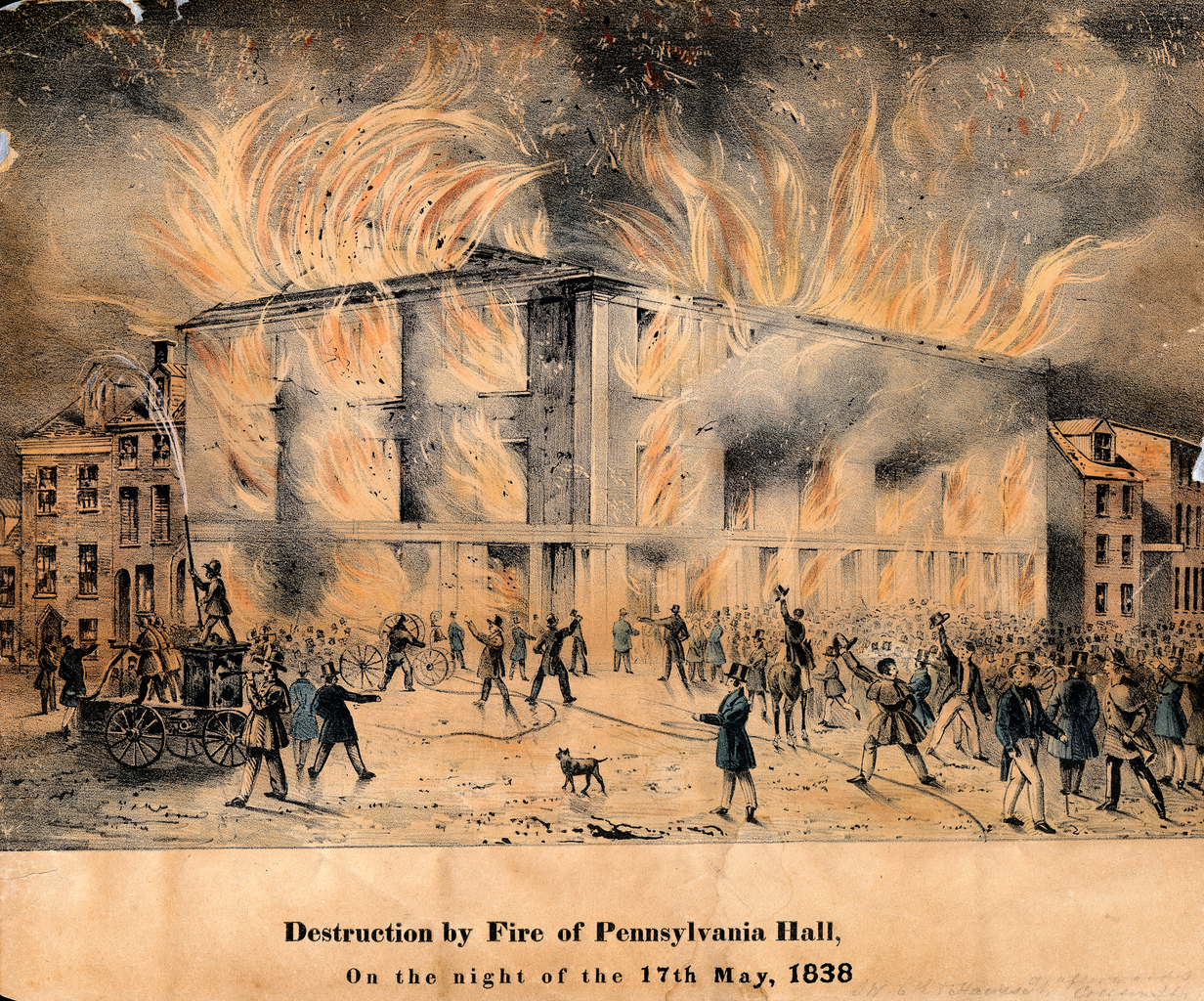 This dramatic hand-colored print shows the destruction of Pennsylvania Hall, a large building that was constructed in 1837–38 at Sixth and Haines Streets in Philadelphia as a meeting place for local abolitionist (antislavery) groups. Dedication ceremonies began on May 14, 1838, and continued over several days in a climate of growing hostility from anti-abolitionist forces in the city. On the night of May 17, 1838, an anti-abolitionist mob stormed the hall and set it on fire. Fire companies refused to fight the blaze, and the building was completely destroyed. A large crowd looks on, as firefighters spray water on an adjoining building. The printer and publisher John T. Bowen issued the print within a few days of the fire to commemorate the event. The illustration is by John Caspar Wild (circa 1804–46), a Swiss-born artist and lithographer, who arrived in Philadelphia from Paris in 1832. He produced paintings and prints of Philadelphia and other American cities, including Cincinnati, Saint Louis, and Davenport, Iowa. His works are important historical records of these cities before the era of large-scale industrialization and rapid urban growth. [Public domain description from Library of Congress.]